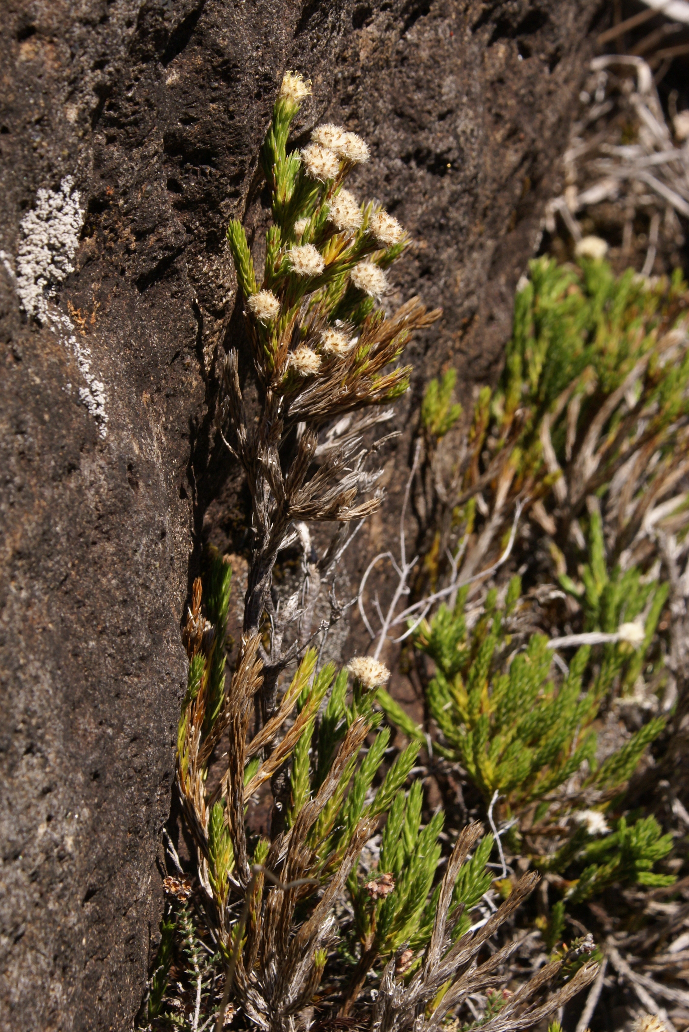 Eriotrix lycopodioides (Plaine des Sables, Réunion island)